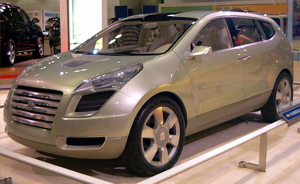 The General Motors Sequel concept car at the 2006 Greater Los Angeles Auto Show. (Photo taken by Covinan)